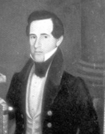 Governor Alexander G. McNutt